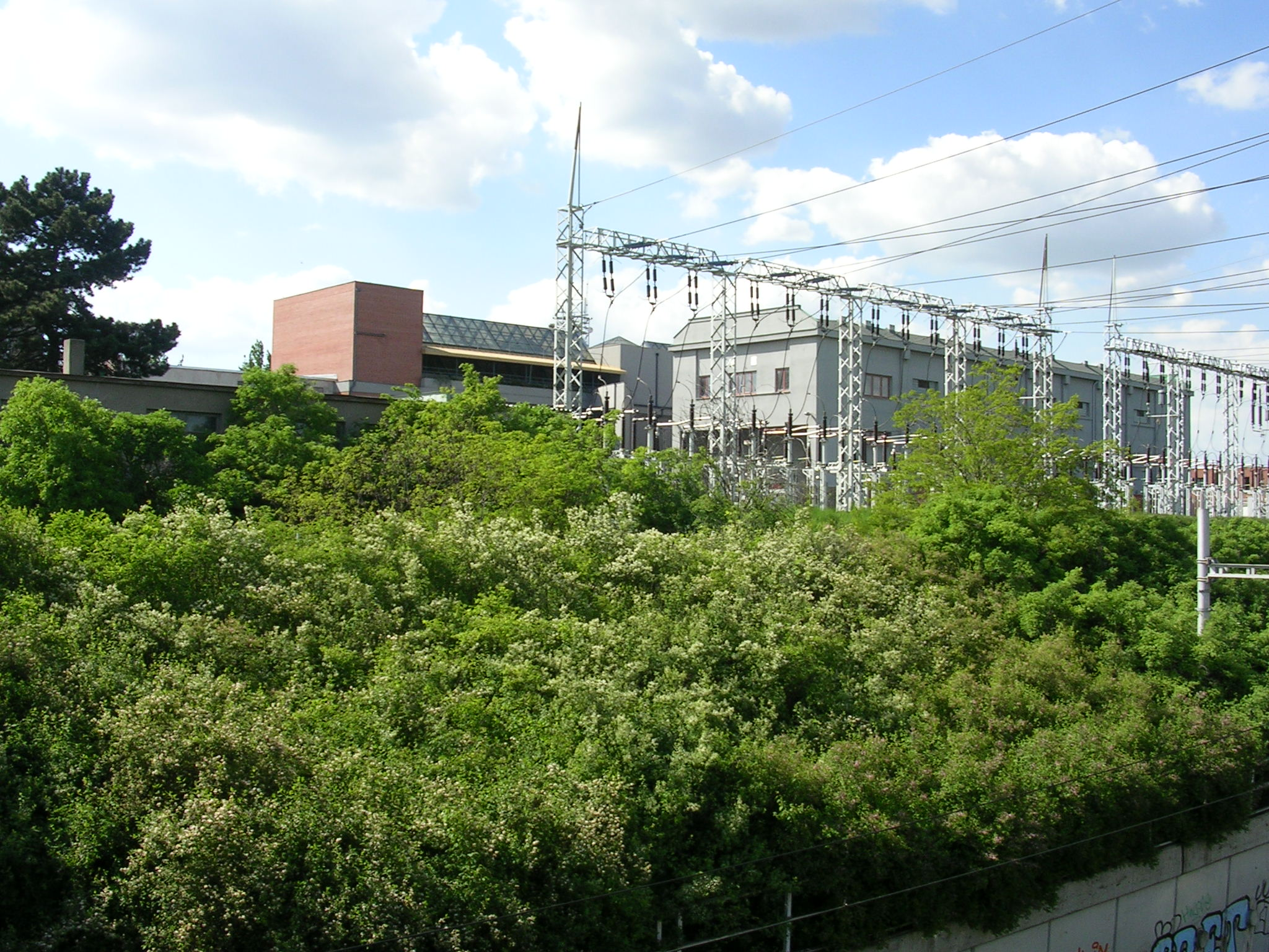 Michle, Prague, the Czech Republic.